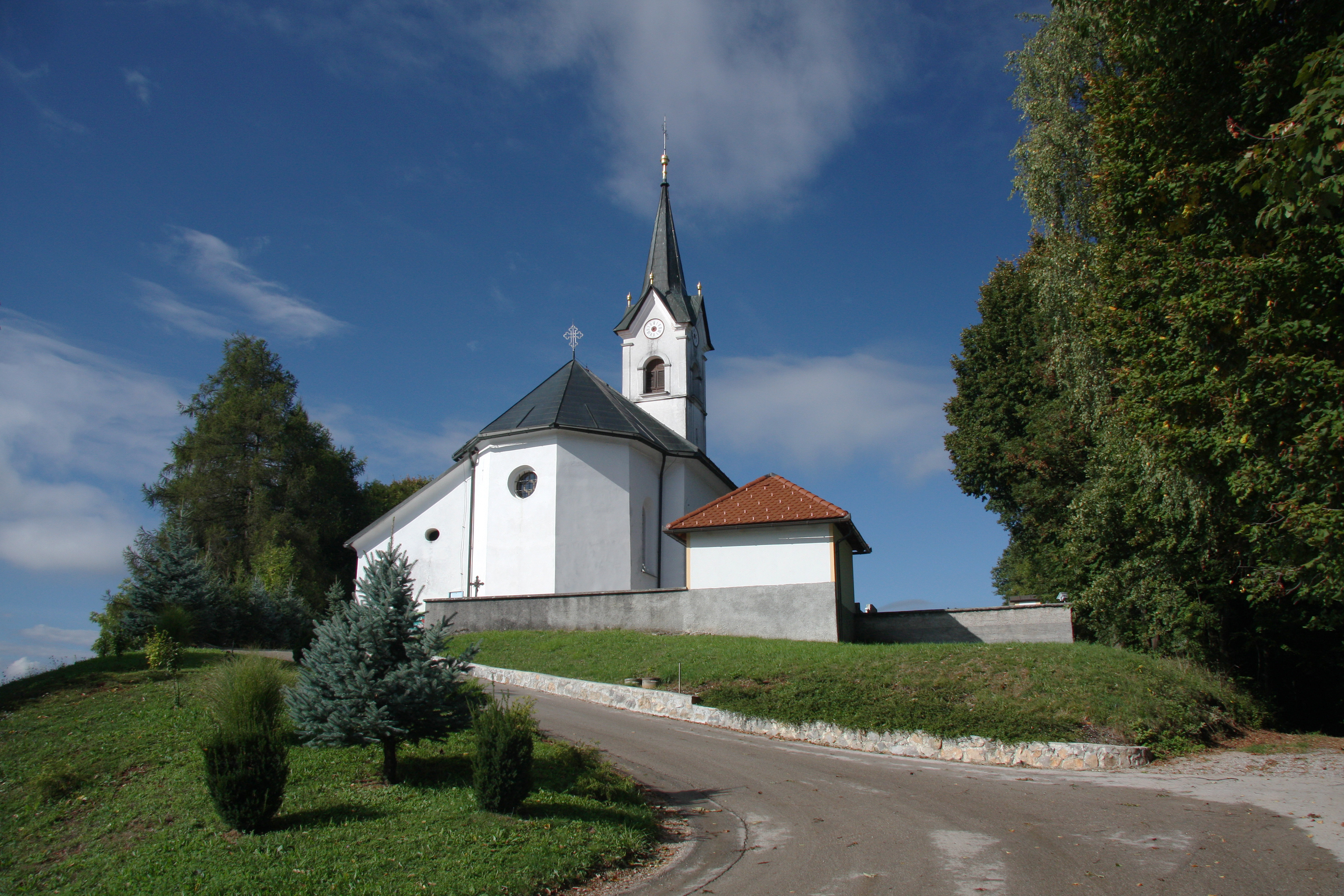 Job church in Sinja Gorica, Slovenia.